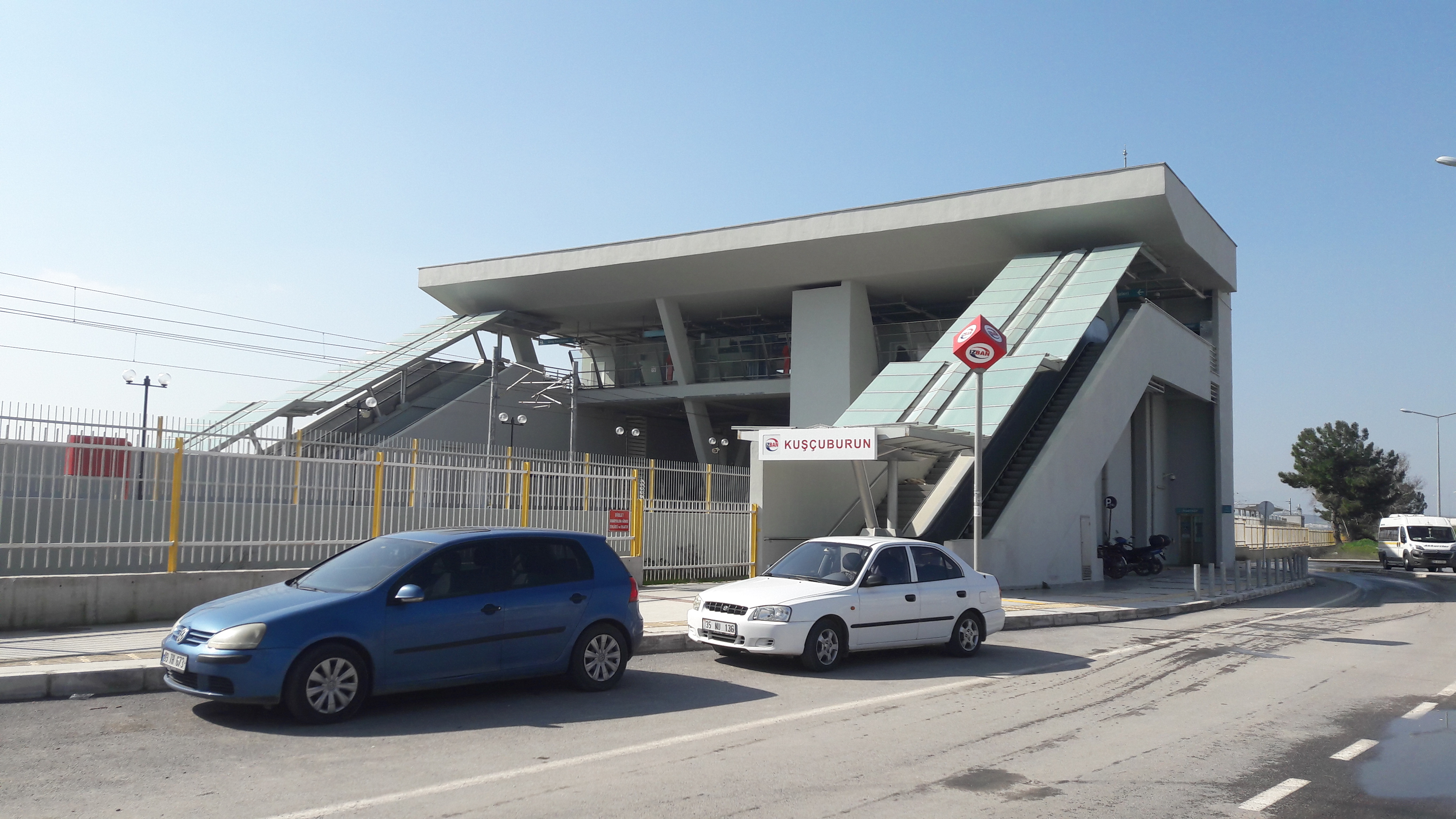 Kuscuburun railway station.